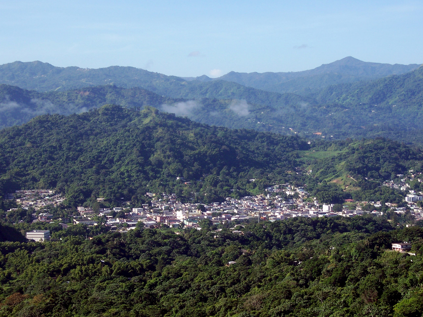 Picture of Utuado Pueblo taken from barrio Sabana Grande